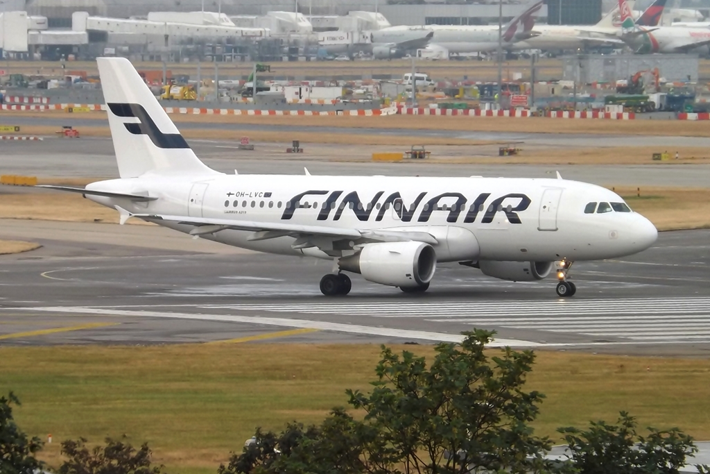 Airbus A319-112 aircraft (OH-LVC) of Finnair at London Heathrow Airport on 25 July 2013.